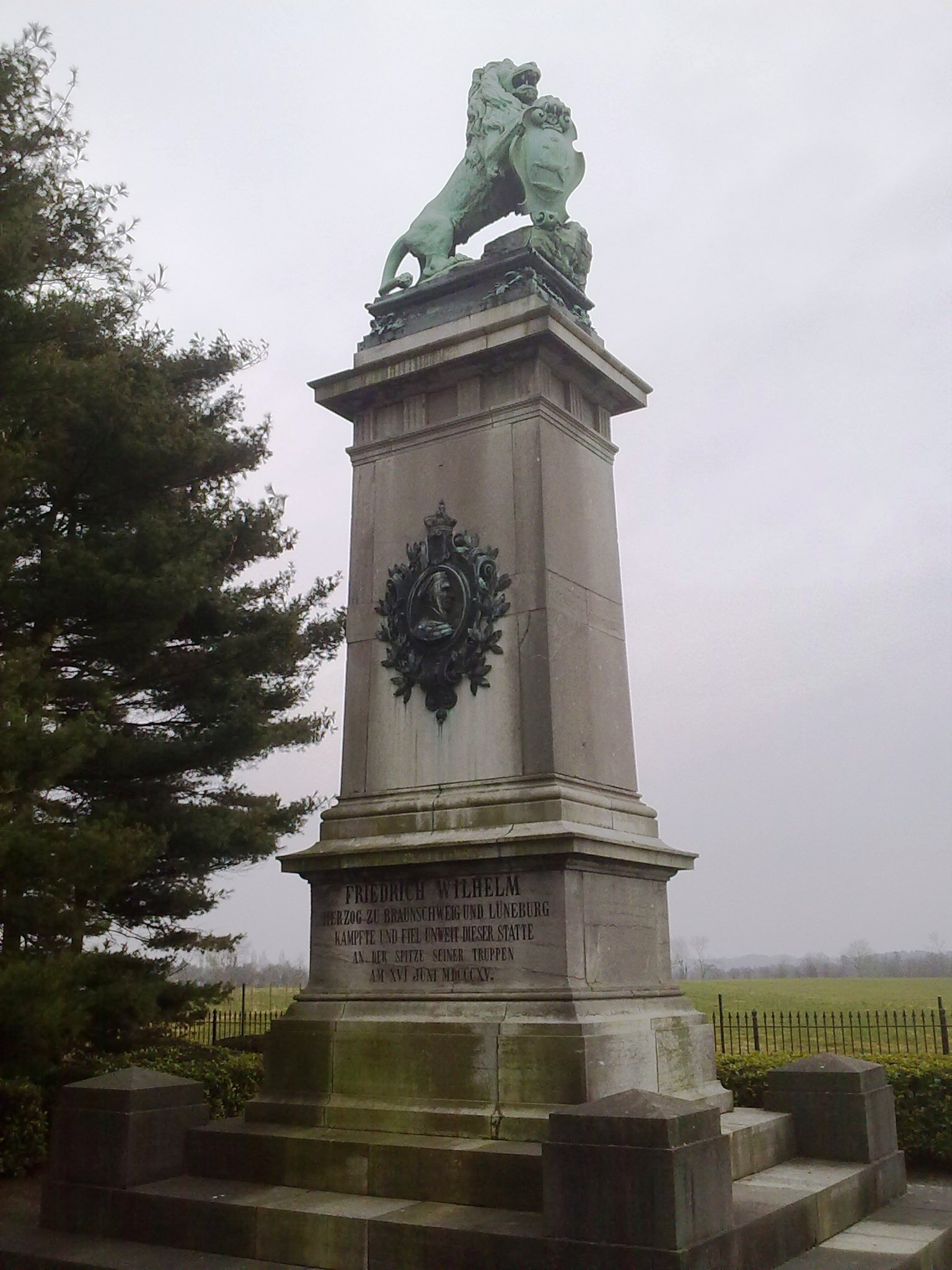 Monument erected to the Memory of Frederick William Brunswick-Wolfenbüttel (1771-1815) at the place of his death in Baisy-Thy (Genappe) Belgium.